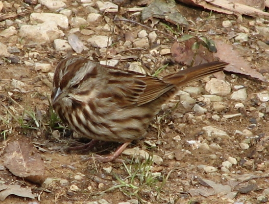 Song Sparrow